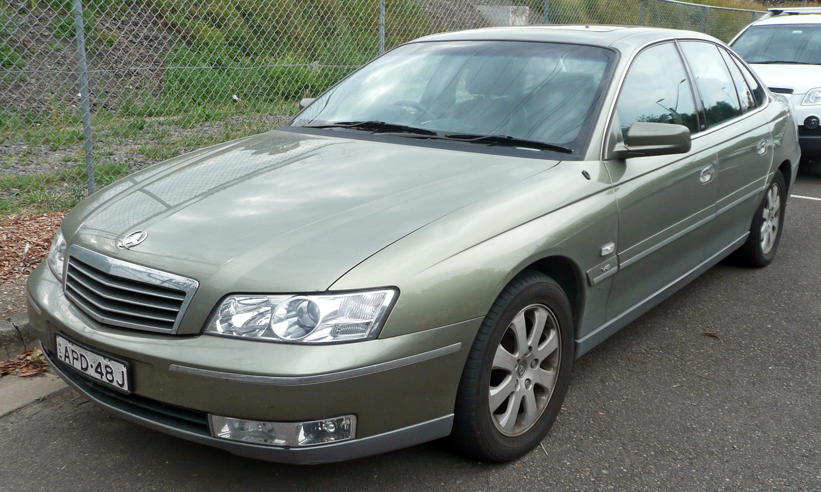 2003 Holden Statesman (WK) sedan. Photographed in Sutherland, New South Wales, Australia.